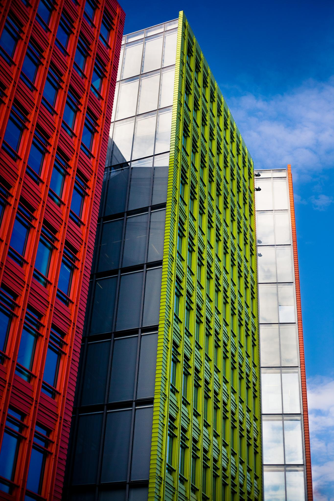 Central St. Giles Court, designed by Renzo Piano. Camden Town, London, UK